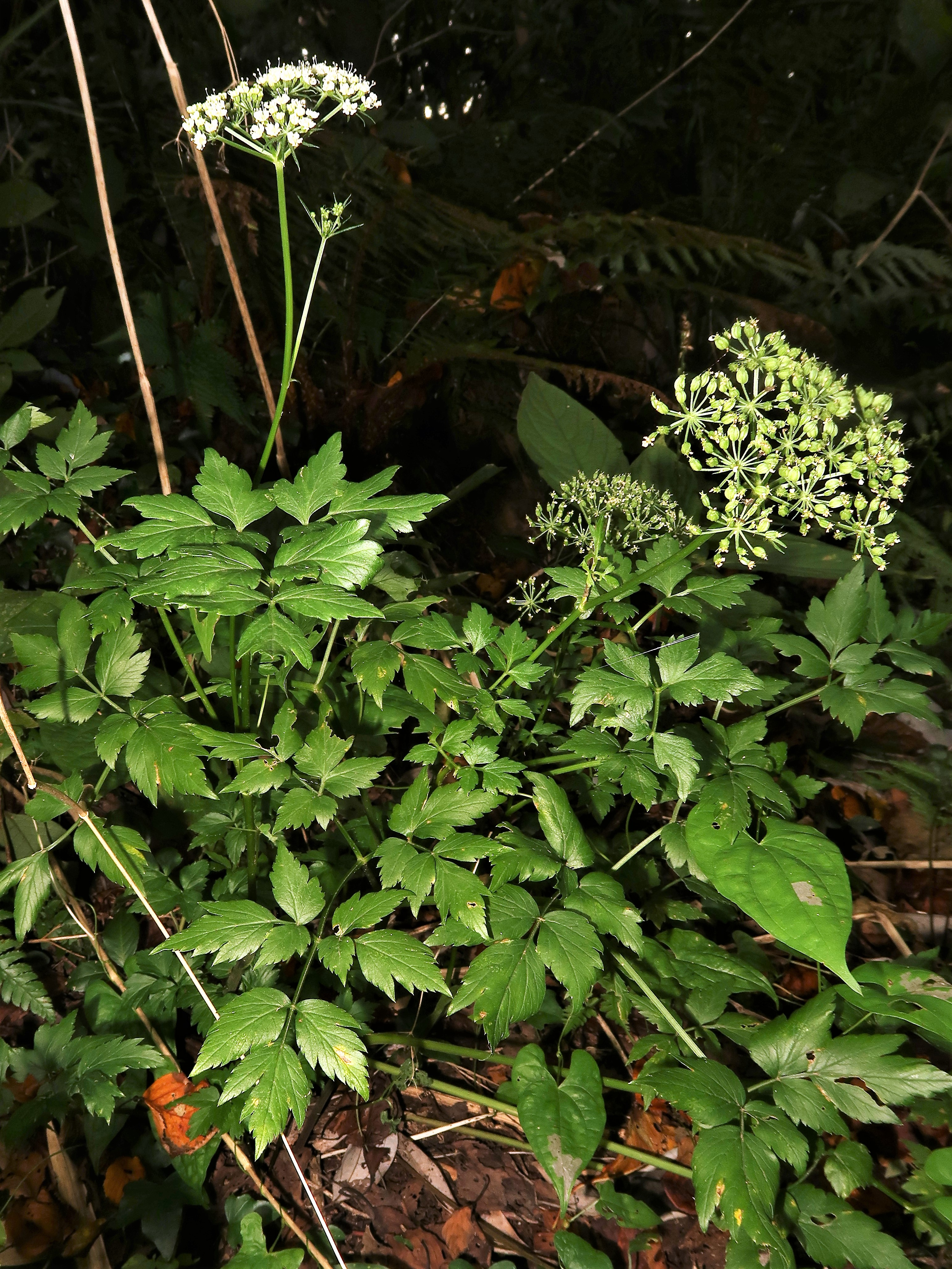 Dystaenia ibukiensis, Kashiwazaki city, Niigata pref., Japan